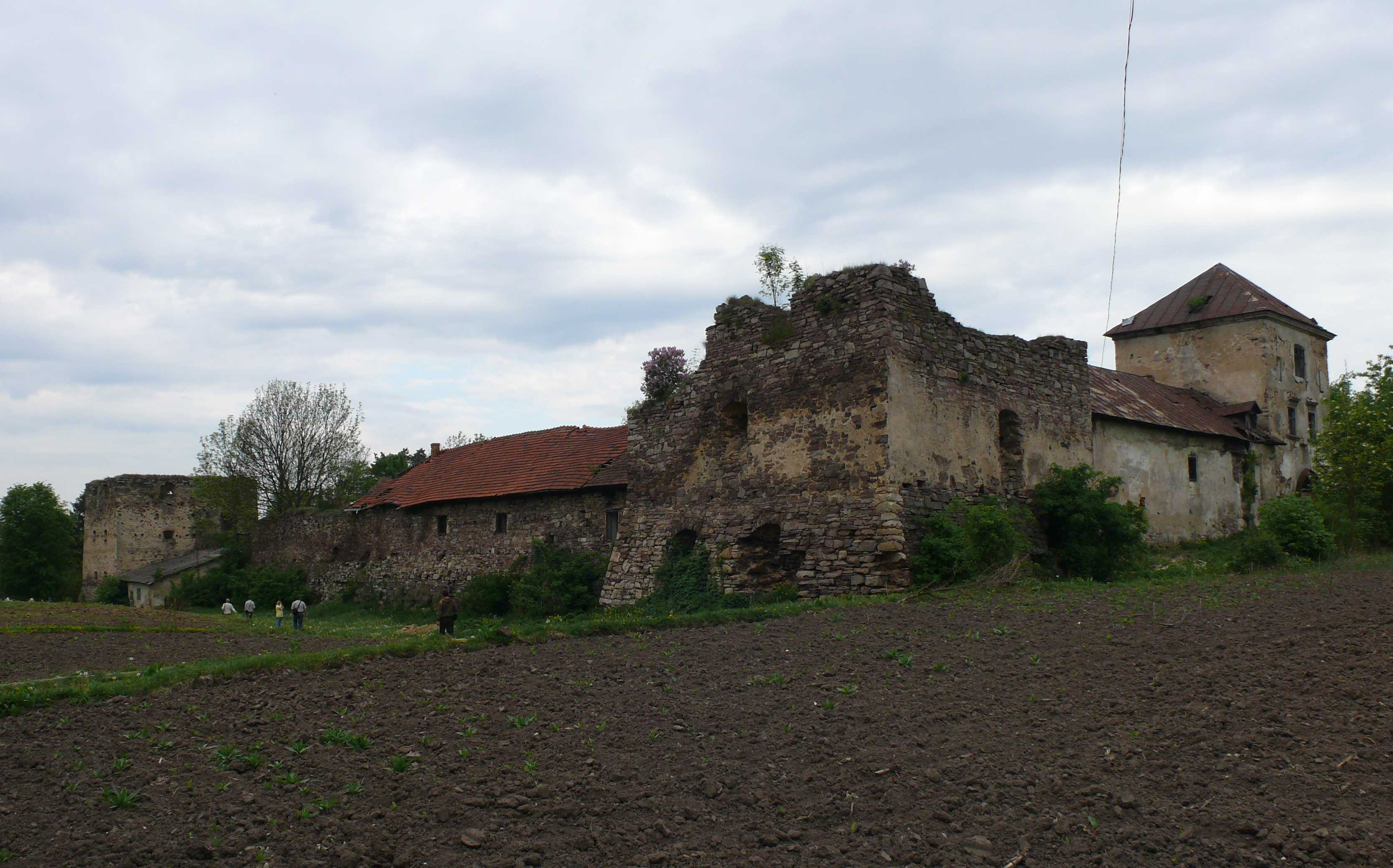 Ukraine. Castle of Zolotyi Potik